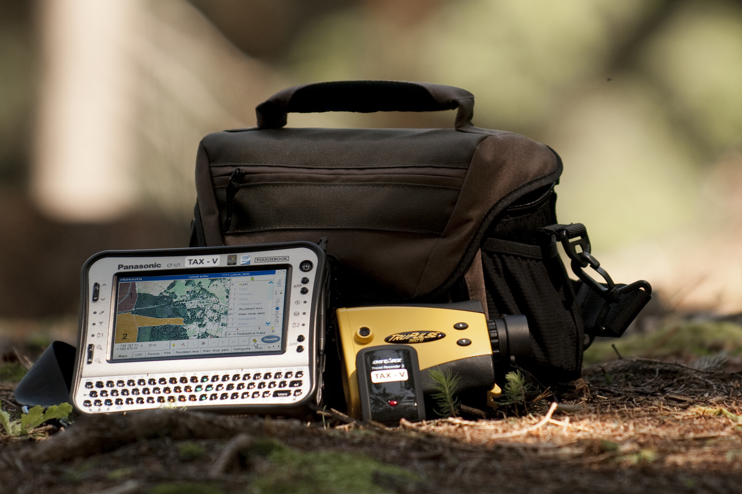 Hardware for forest management planning (technologie Field-Map[2]).